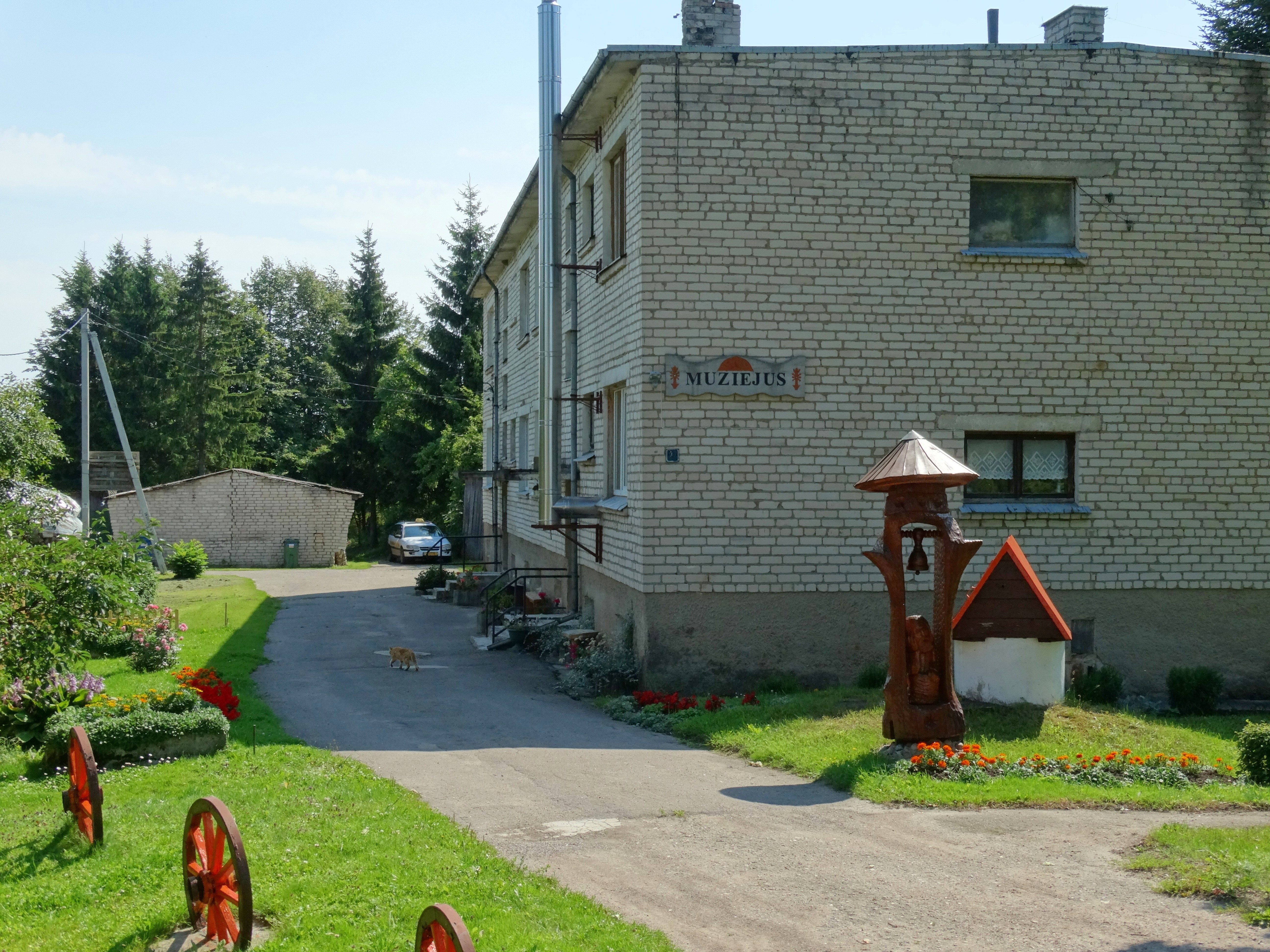 Rudiškiai, Joniškis district, Lithuania